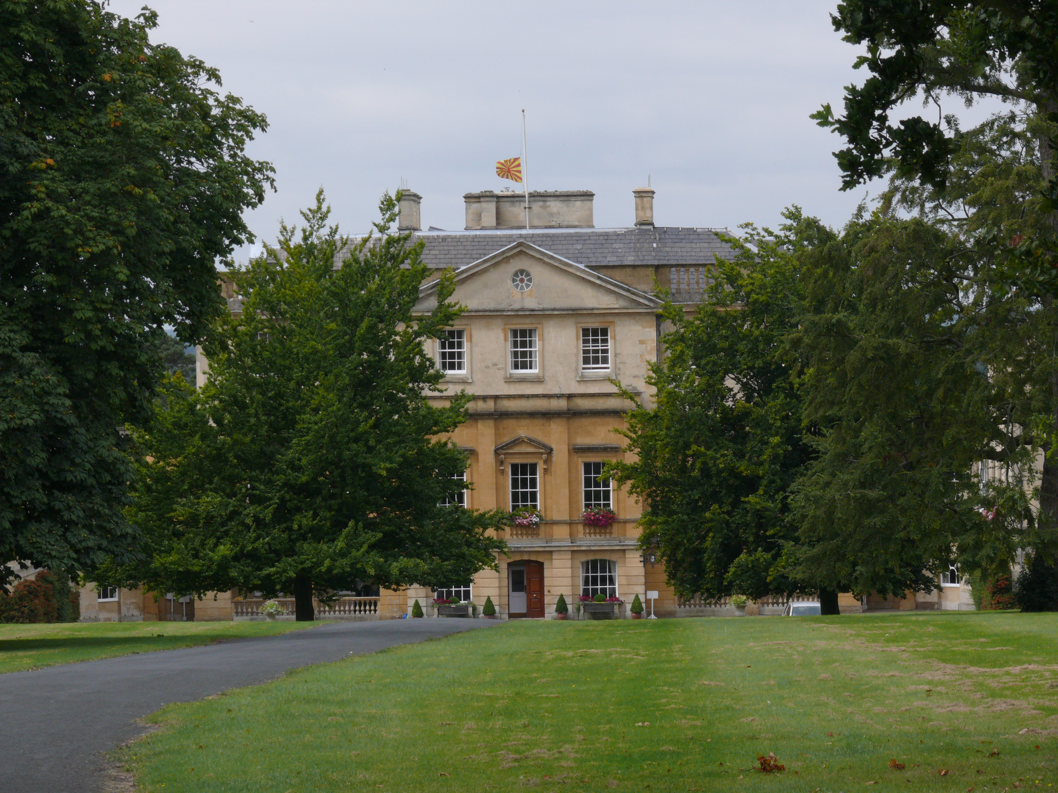 The "Brahma Kumaris World Spiritual University" site at Nuneham House, Nuneham Courtenay.